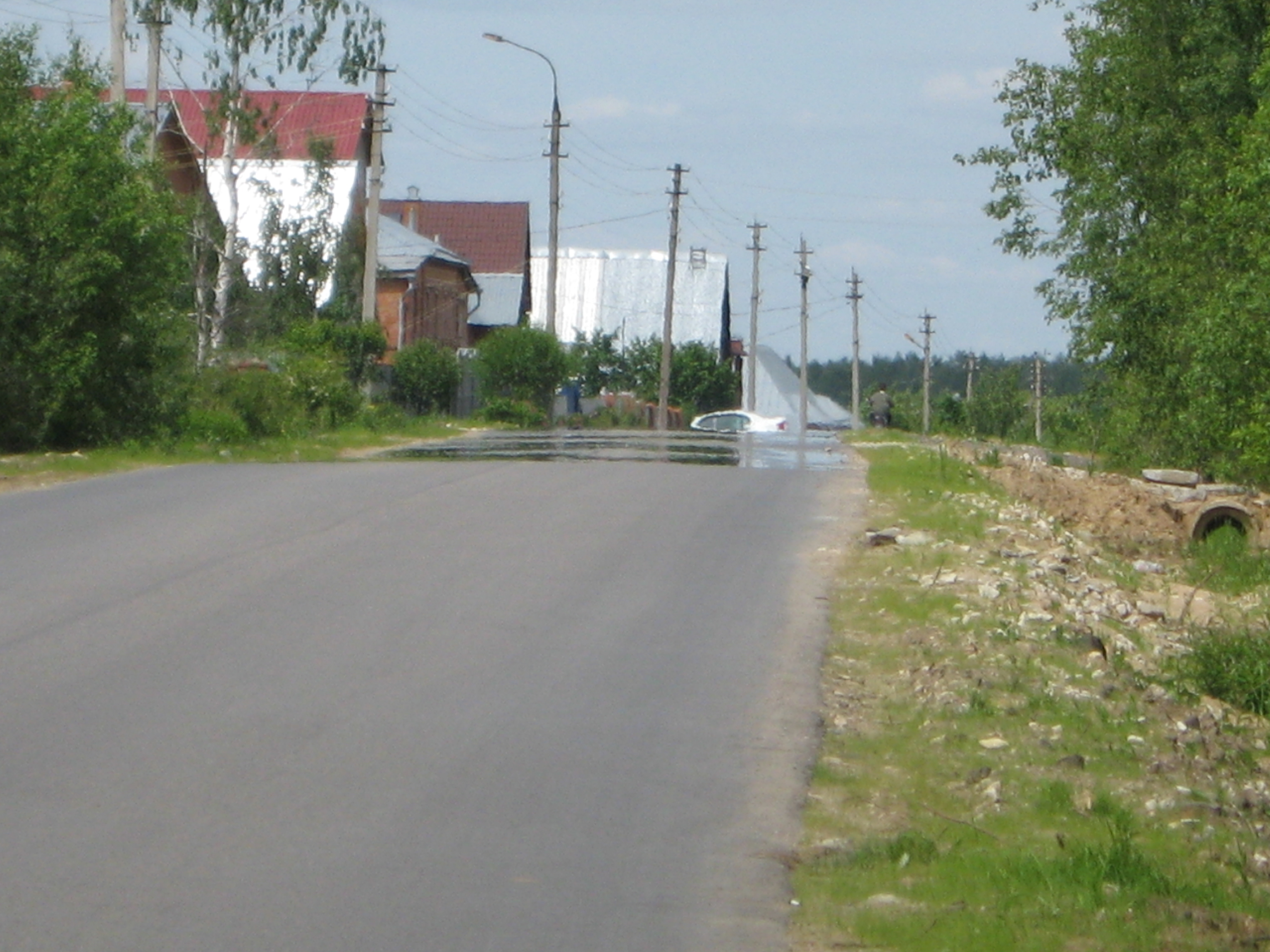 Mirage on the hot roadway